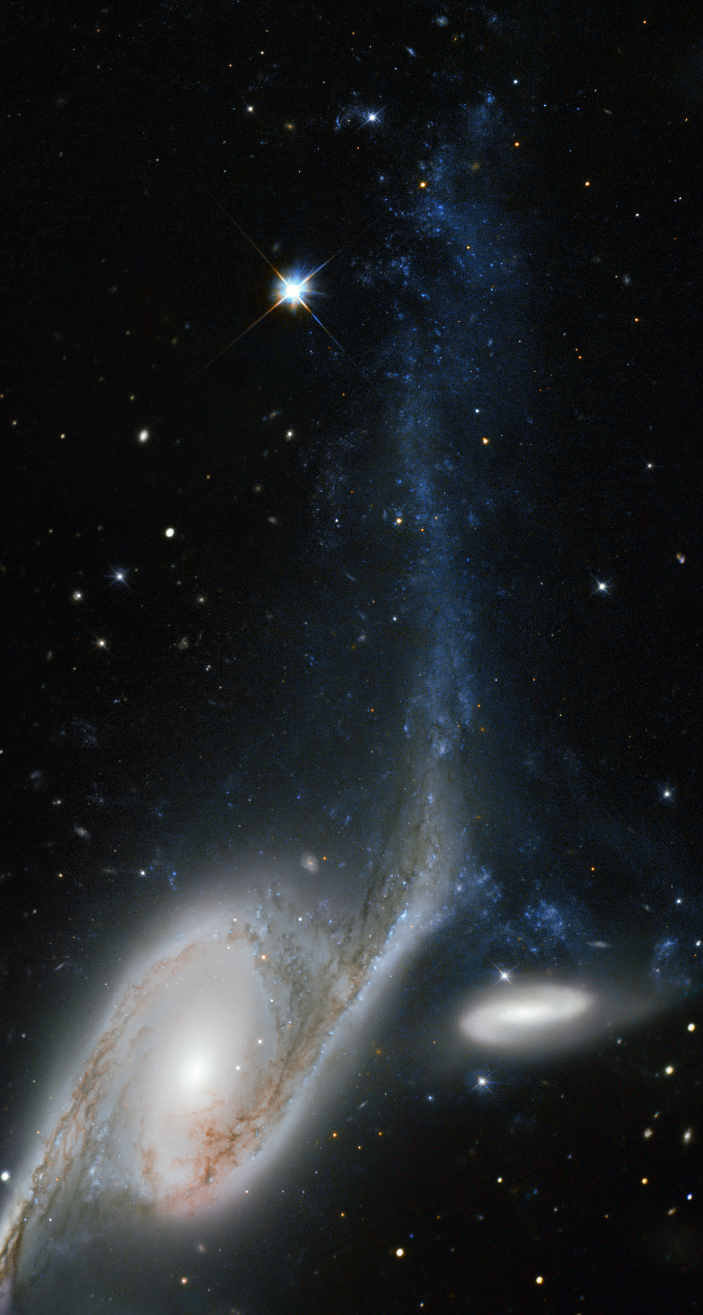 This picture, taken by the NASA/ESA Hubble Space Telescope’s Wide Field Planetary Camera 2 (WFPC2), shows a galaxy known as NGC 6872 in the constellation of Pavo (The Peacock). Its unusual shape is caused by its interactions with the smaller galaxy that can be seen just above NGC 6872, called IC 4970. They both lie roughly 300 million light-years away from Earth. From tip to tip, NGC 6872 measures over 500 000 light-years across, making it the second largest spiral galaxy discovered to date. In terms of size it is beaten only by NGC 262, a galaxy that measures a mind-boggling 1.3 million light-years in diameter! To put that into perspective, our own galaxy, the Milky Way, measures between 100 000 and 120 000 light-years across, making NGC 6872 about five times its size. The upper left spiral arm of NGC 6872 is visibly distorted and is populated by star-forming regions, which appear blue on this image. This may have been be caused by IC 4970 recently passing through this arm — although here, recent means 130 million years ago! Astronomers have noted that NGC 6872 seems to be relatively sparse in terms of free hydrogen, which is the basis material for new stars, meaning that if it weren’t for its interactions with IC 4970, NGC 6872 might not have been able to produce new bursts of star formation. A version of this image was entered into the Hubble’s Hidden Treasures image processing competition by contestant Judy Schmidt.